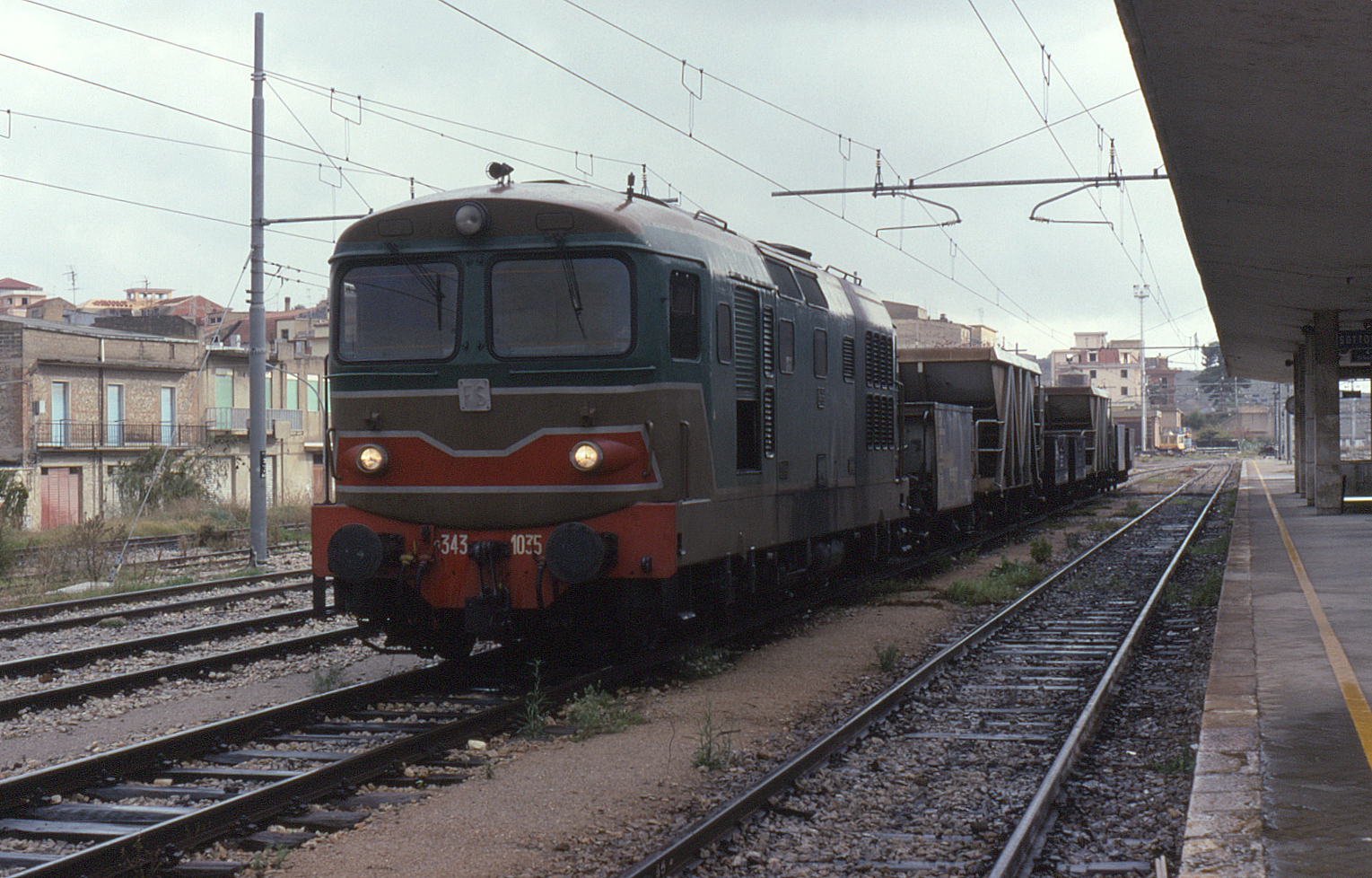 D343.1035 sits on a short engineers train at Canicattì station on the Italian island of Sicily. Photo taken 14 November 1995.